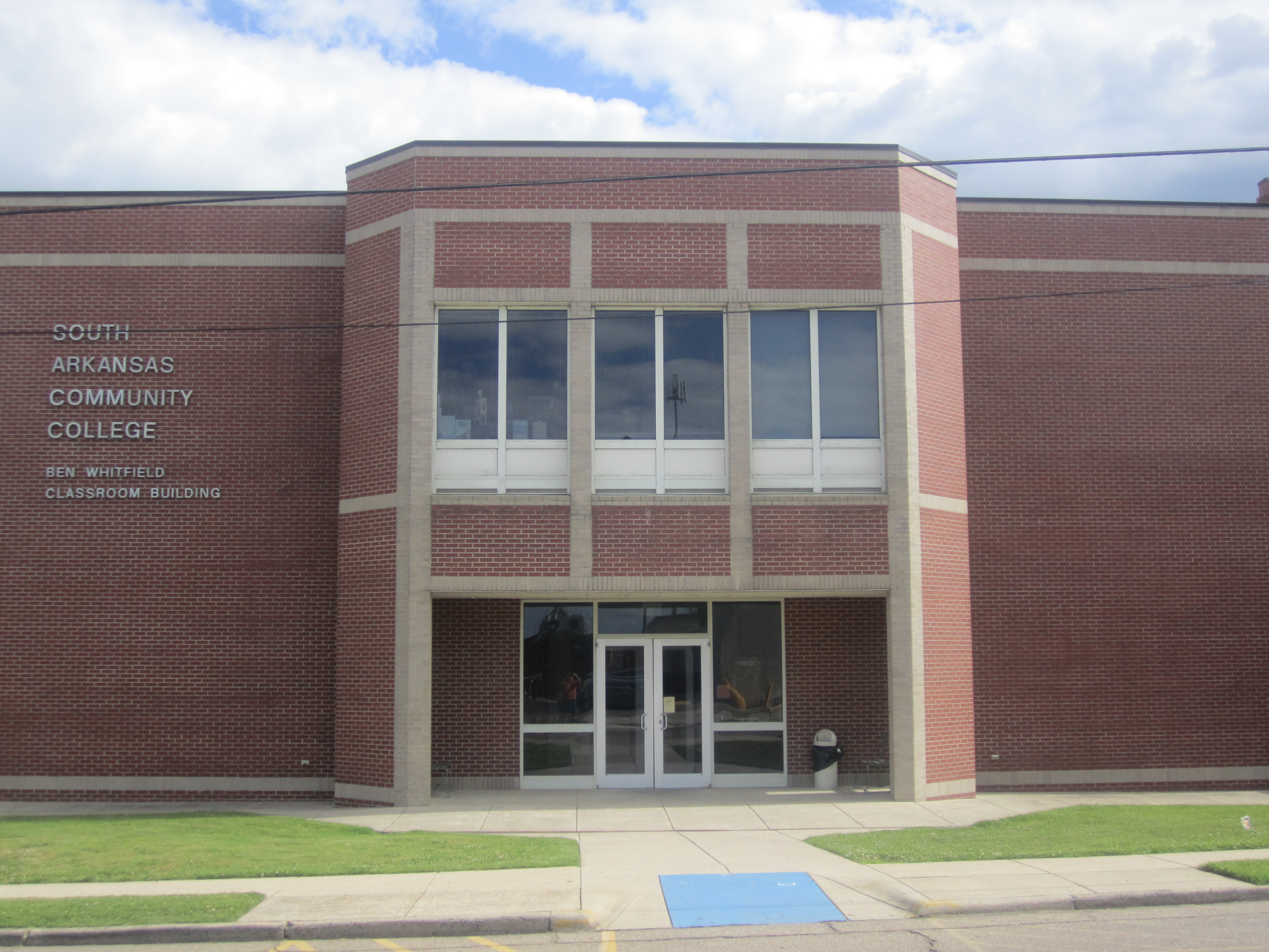 I took photo of Ben Whitfield Classroom Building at Southern Arkansas Community College in El Dorado, AR, with Canon camera.